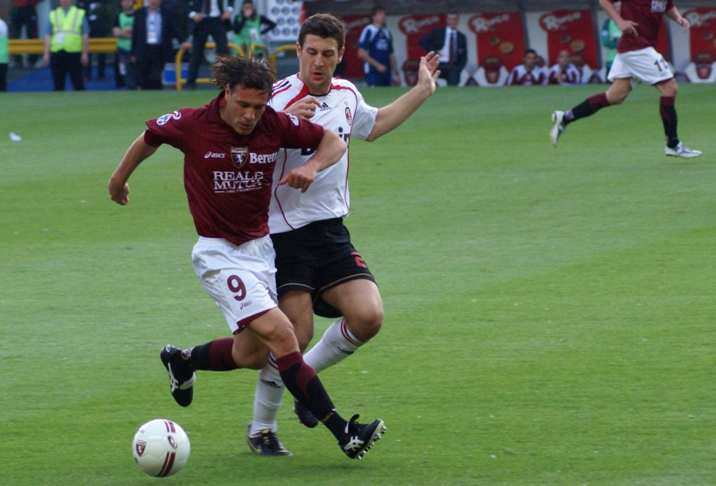 Soccer Torino's FC player Roberto Muzzi is controlled by Milan's Bonera.